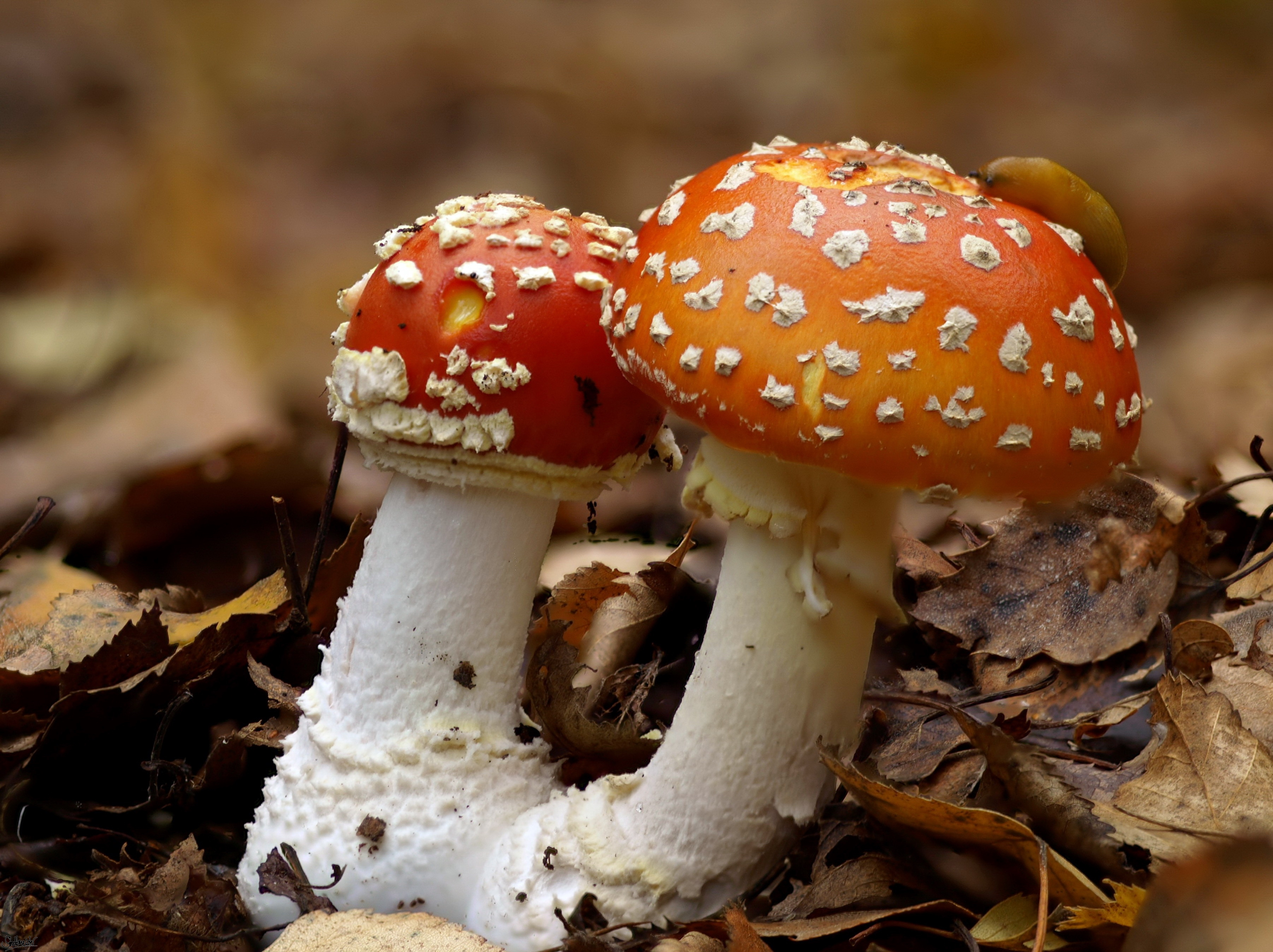 fly agaric with nudibranch